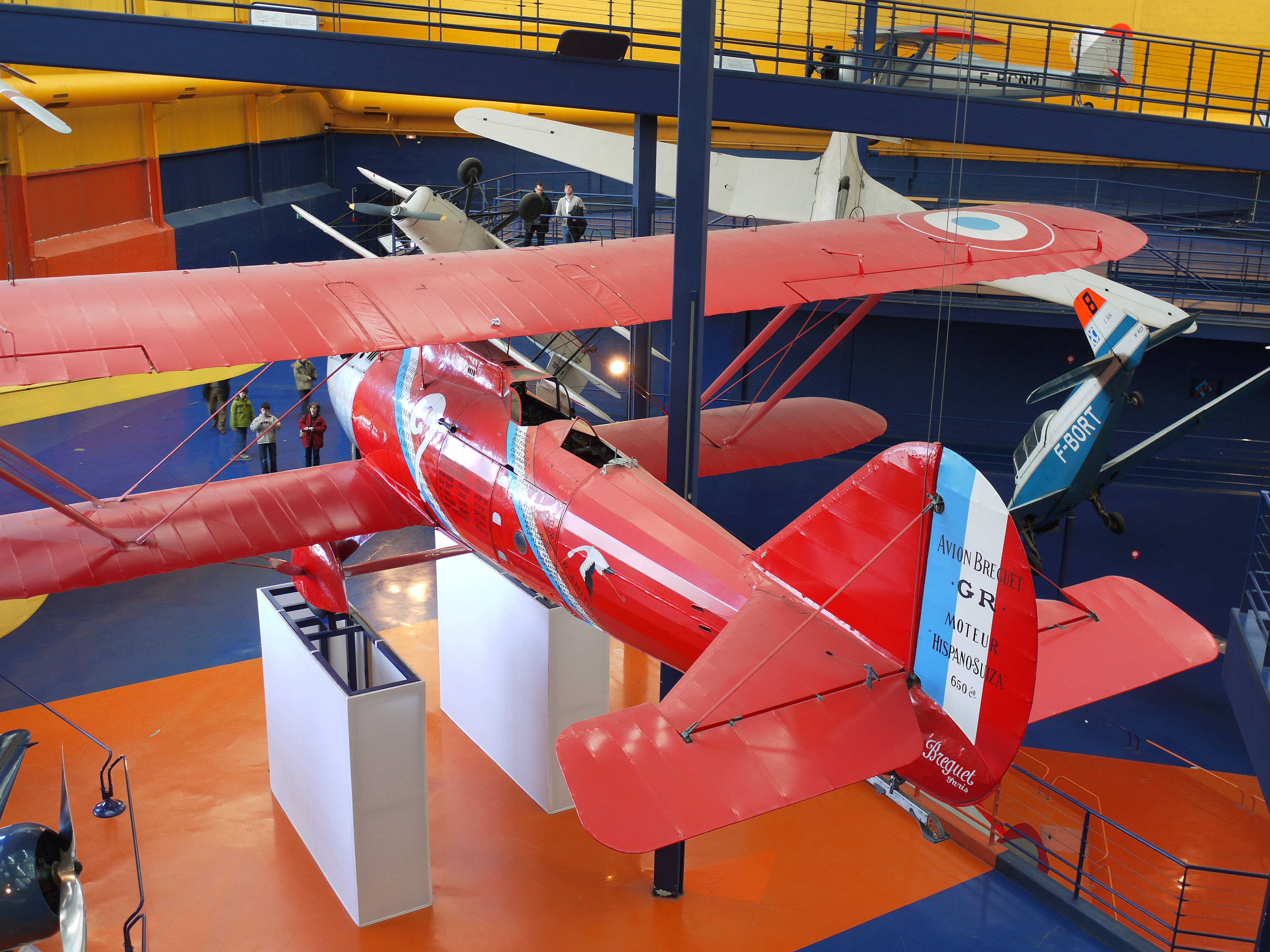 Breguet XIX "Point d'interrogation" (1929) , Museum of Air and Space Paris, Le Bourget (France)